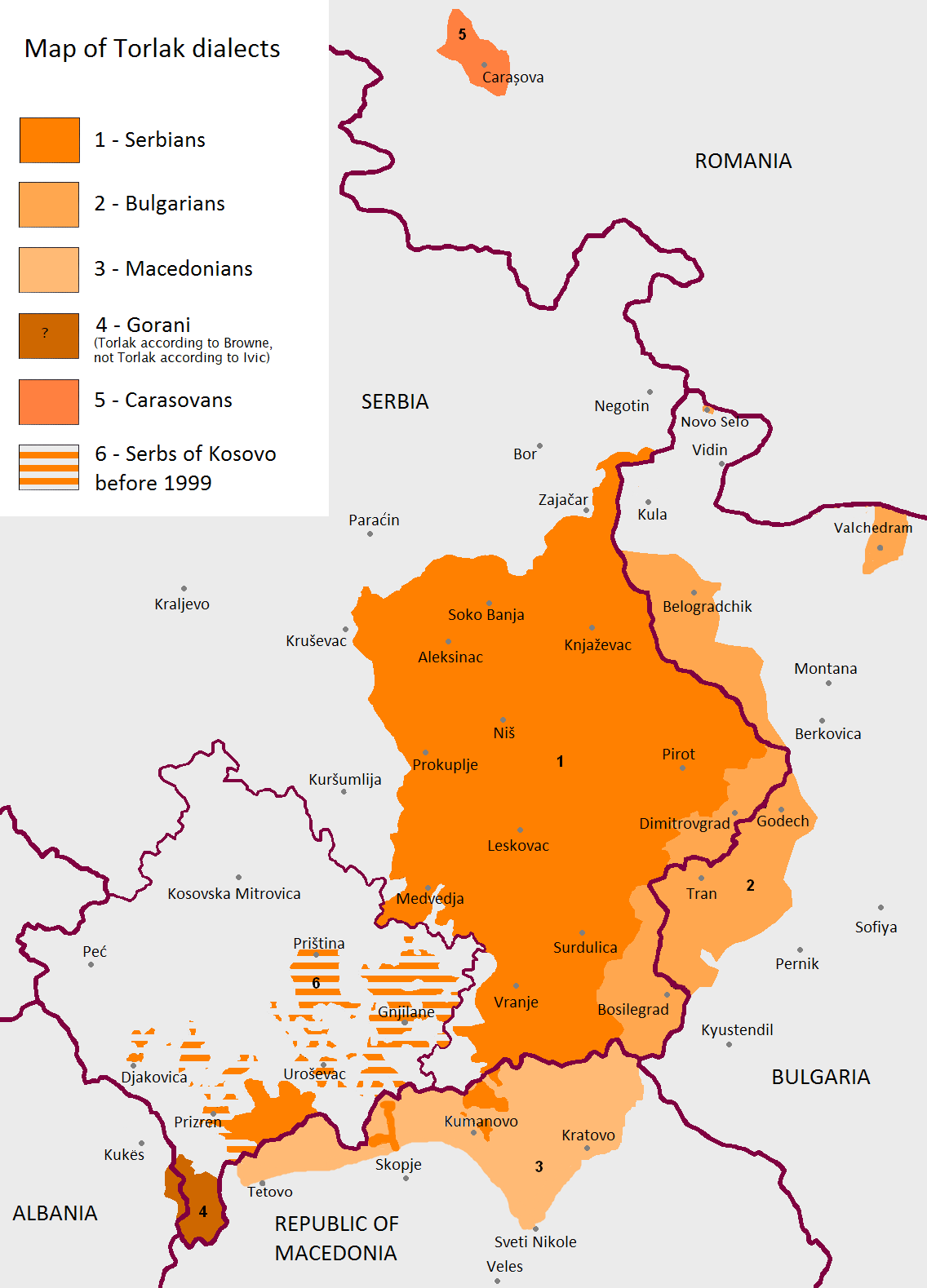 Torlak dialect in English on the Balkans acc. to Wayles, Brownie (2003) The Slavonic Languages (in 7. Serbo-Croat), Routledge, p. 383 ISBN: 9781136861376. , Pavle Ivić, Dijalektologija srpskohrvatskog jezika - uvod i štokavsko narečje, p. 218 , Dialectological Atlas of Bulgarian Academy of Sciences, part 3 - 1974, part 4 - 1974. Reworked Пламен Цветков. )